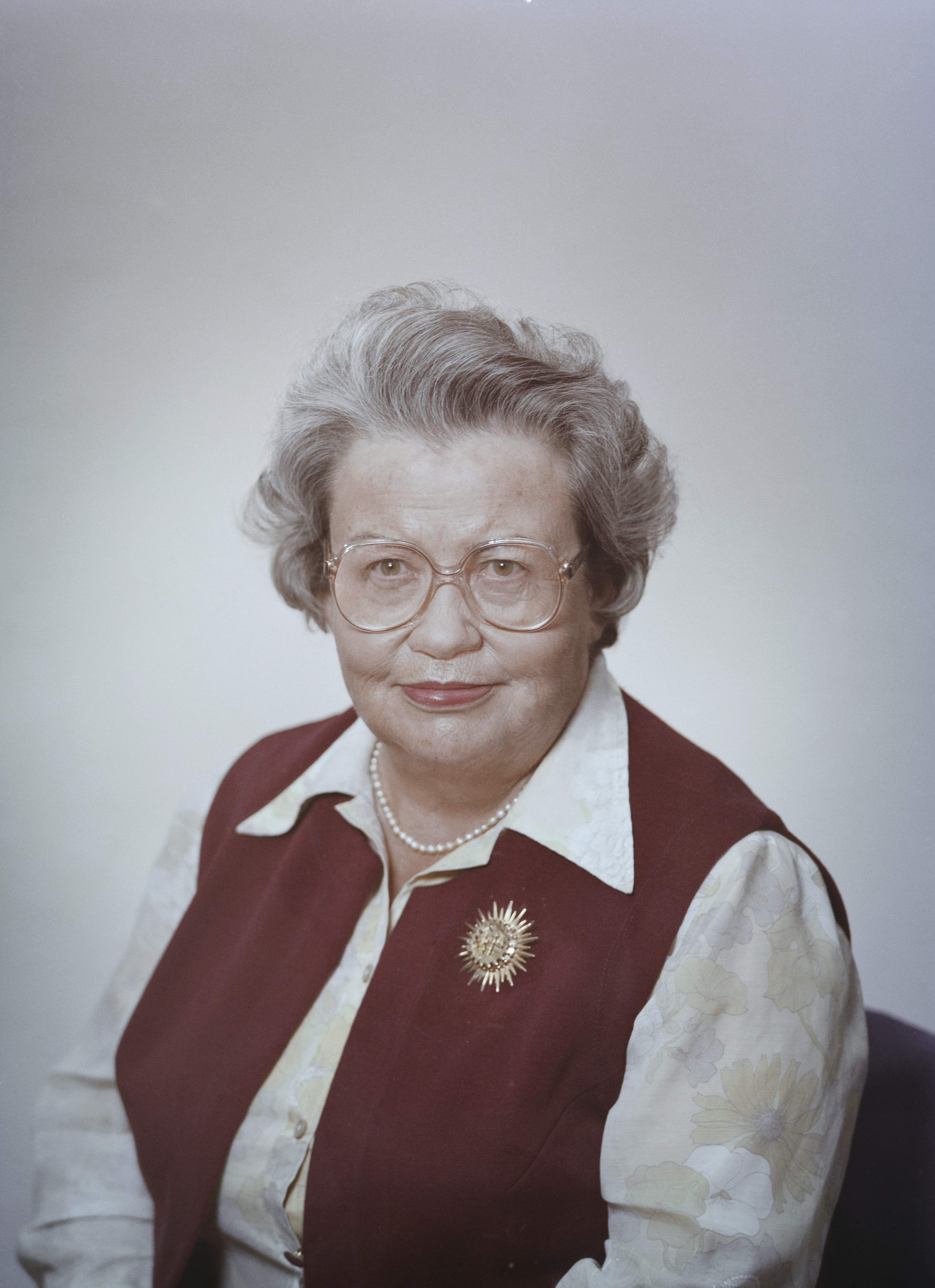 Photograph of the Finnish diplomat Riitta Örö (1920–2005).